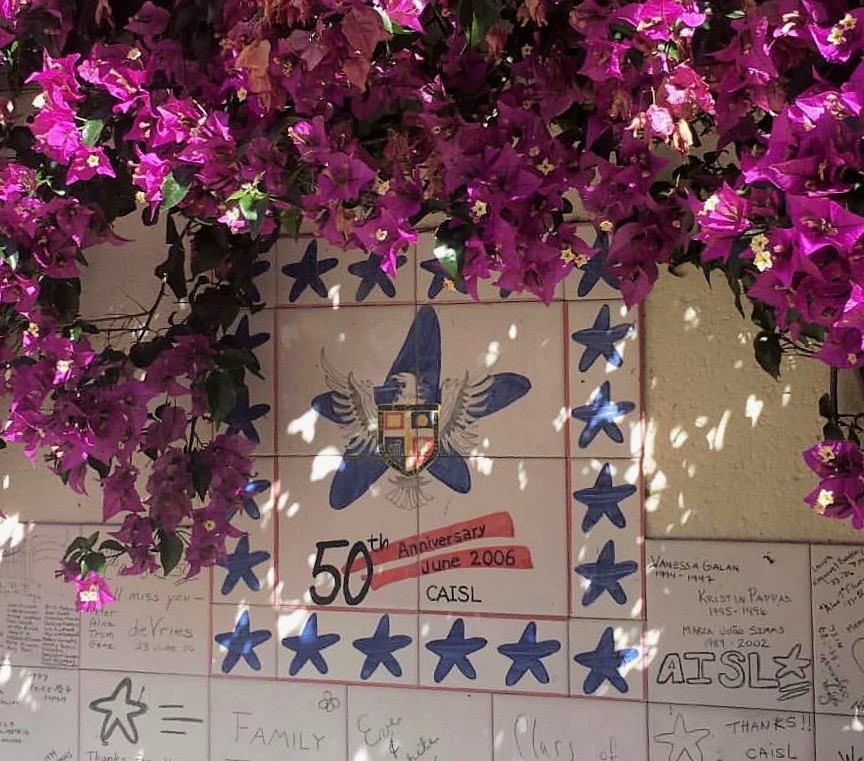 CAISL 50th Anniversary Memorial